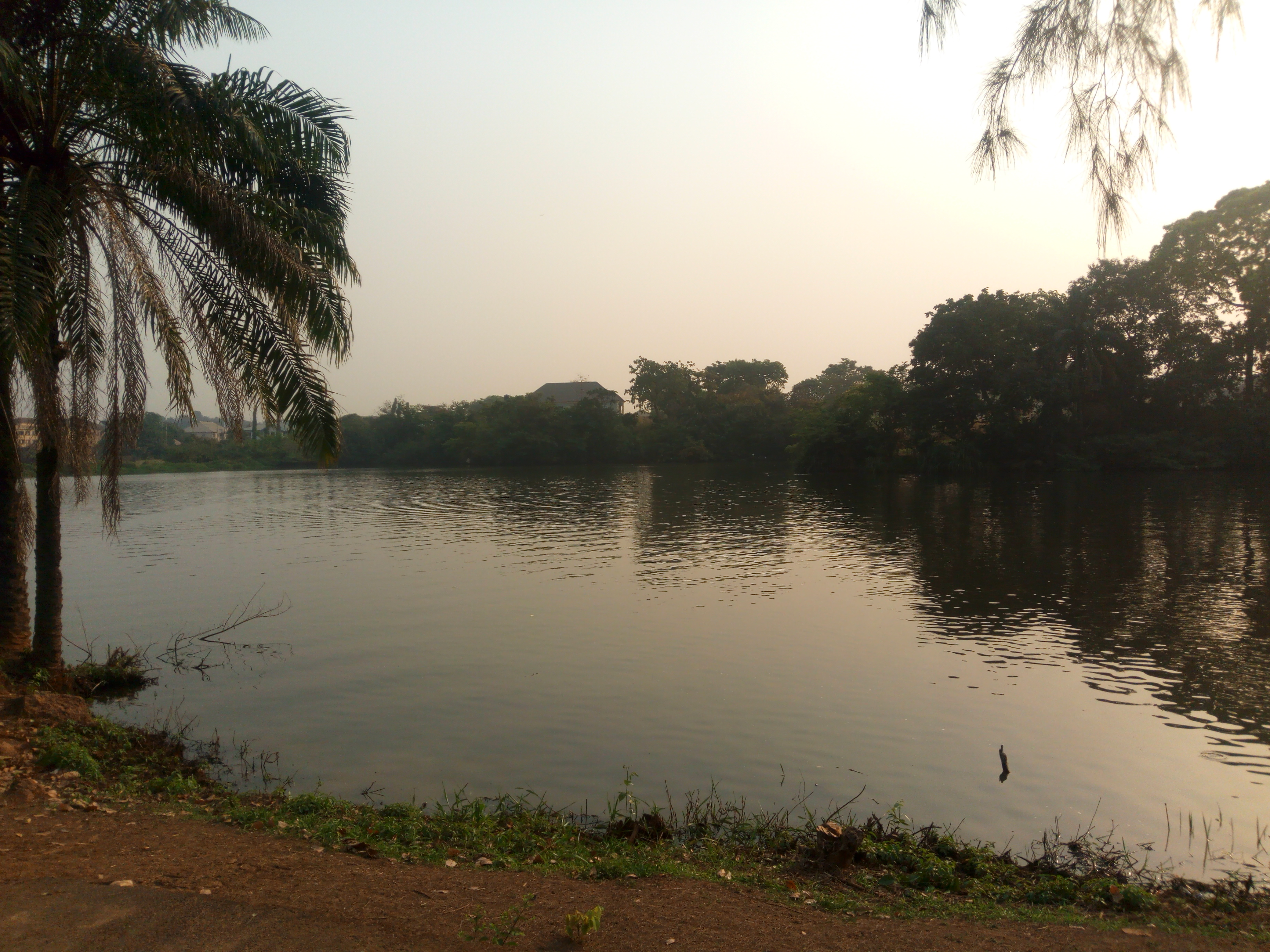 The calm surface of Nike Lake inducing a sensational calmness as its glassy surface ripples.